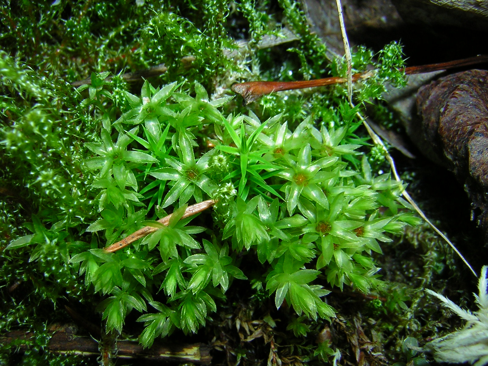 Mnium spinosum (Voit) Schwägr.